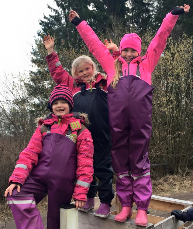 Three children hiking in the woods.